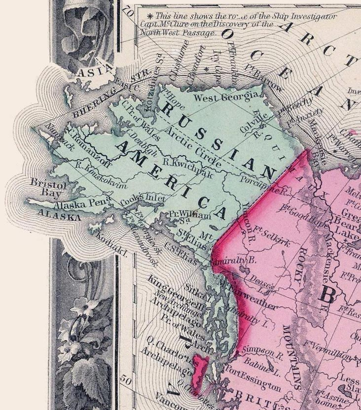 In this 1860 map, Russian America (Alaska) was to the west of British America (Canada). Excerpt from the "Map of North America. Showing its Political Divisions, and Recent Discoveries in the Polar Regions" in Mitchell's New General Atlas, Containing Maps Of The Various Countries Of The World, Plans Of Cities, Etc. Published By S. Augustus Mitchell, Jr. No. 31 South Sixth Street. 1860.